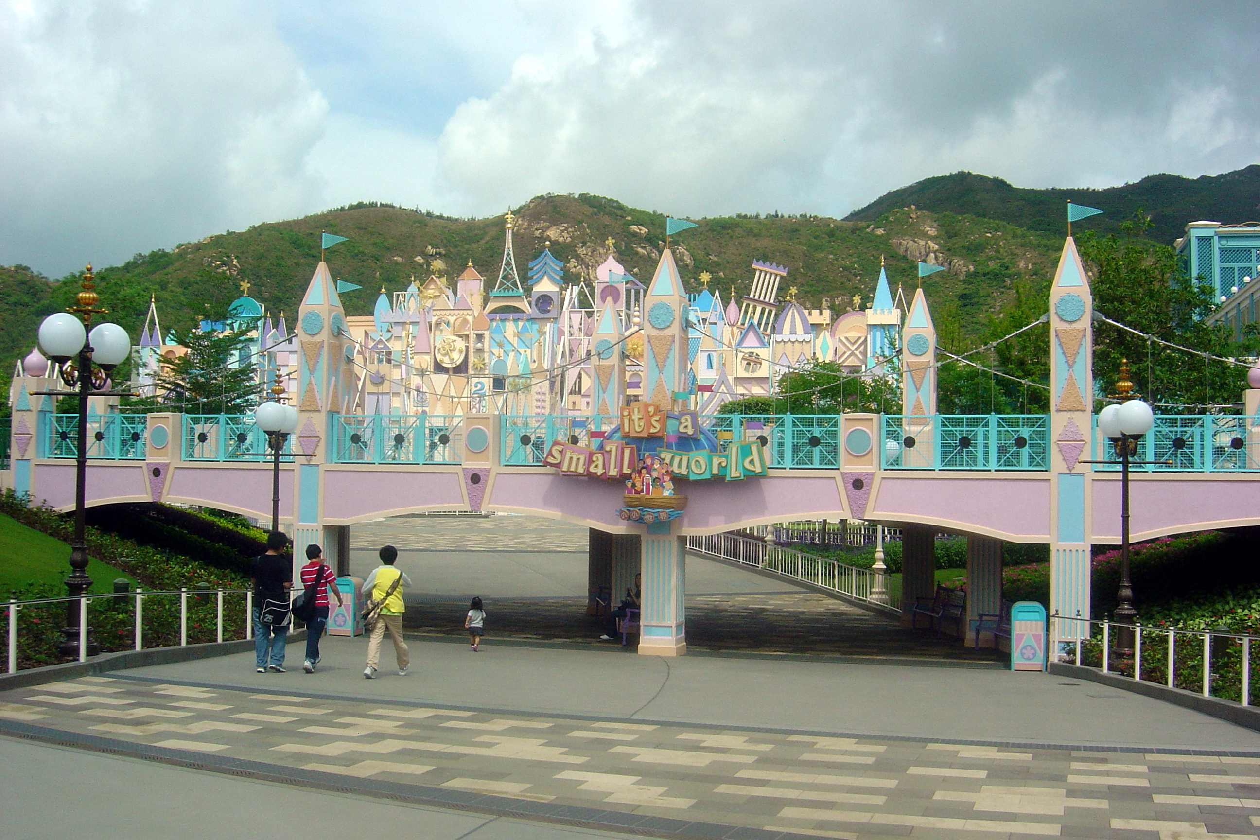 The entrance to "it's a small world" in Fantasyland at Hong Kong Disneyland. Photographed by AdeKaka' on May 4, 2008.